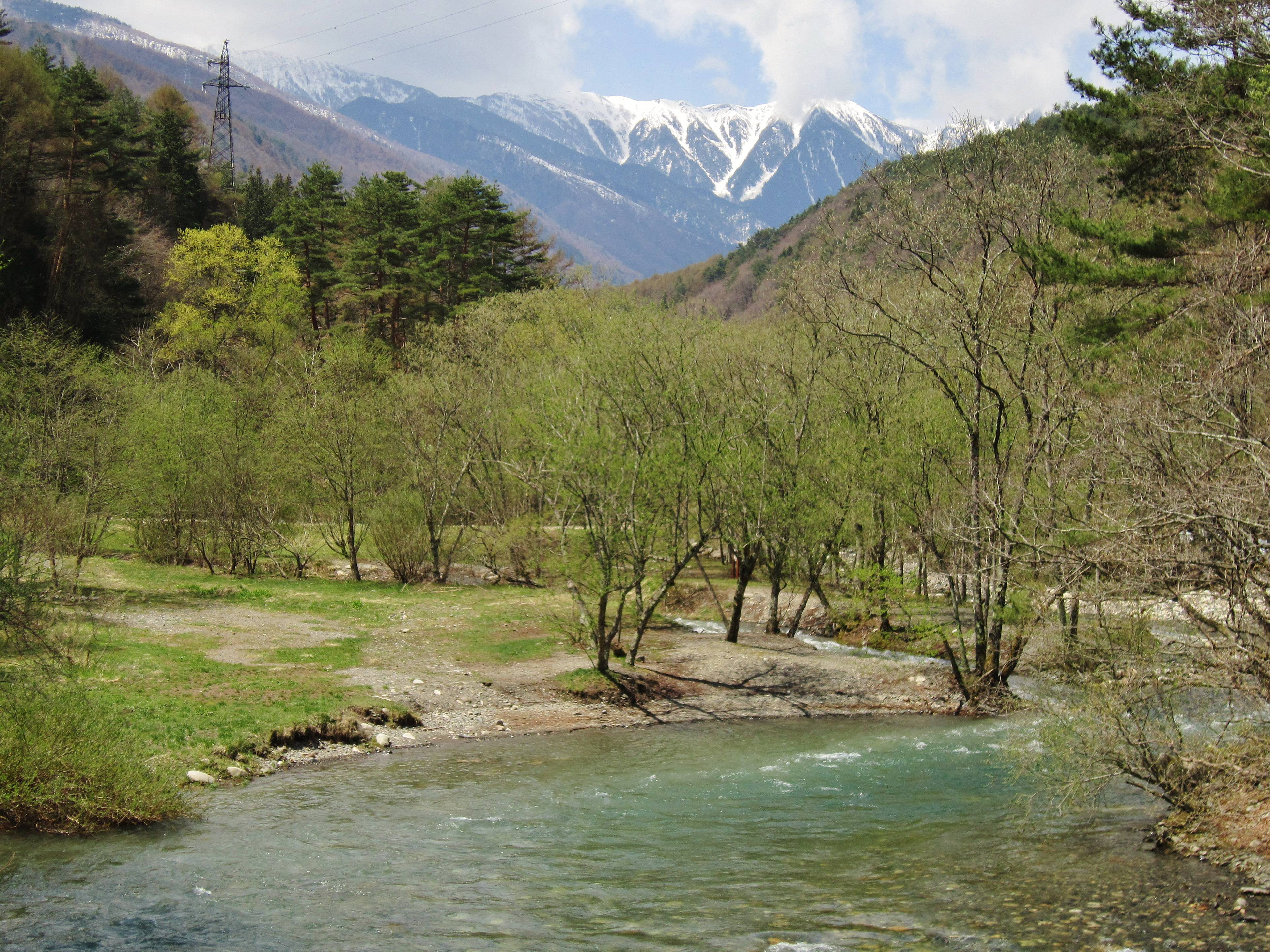 Karasu River view from Karasugawakeikokubashi-bridge.